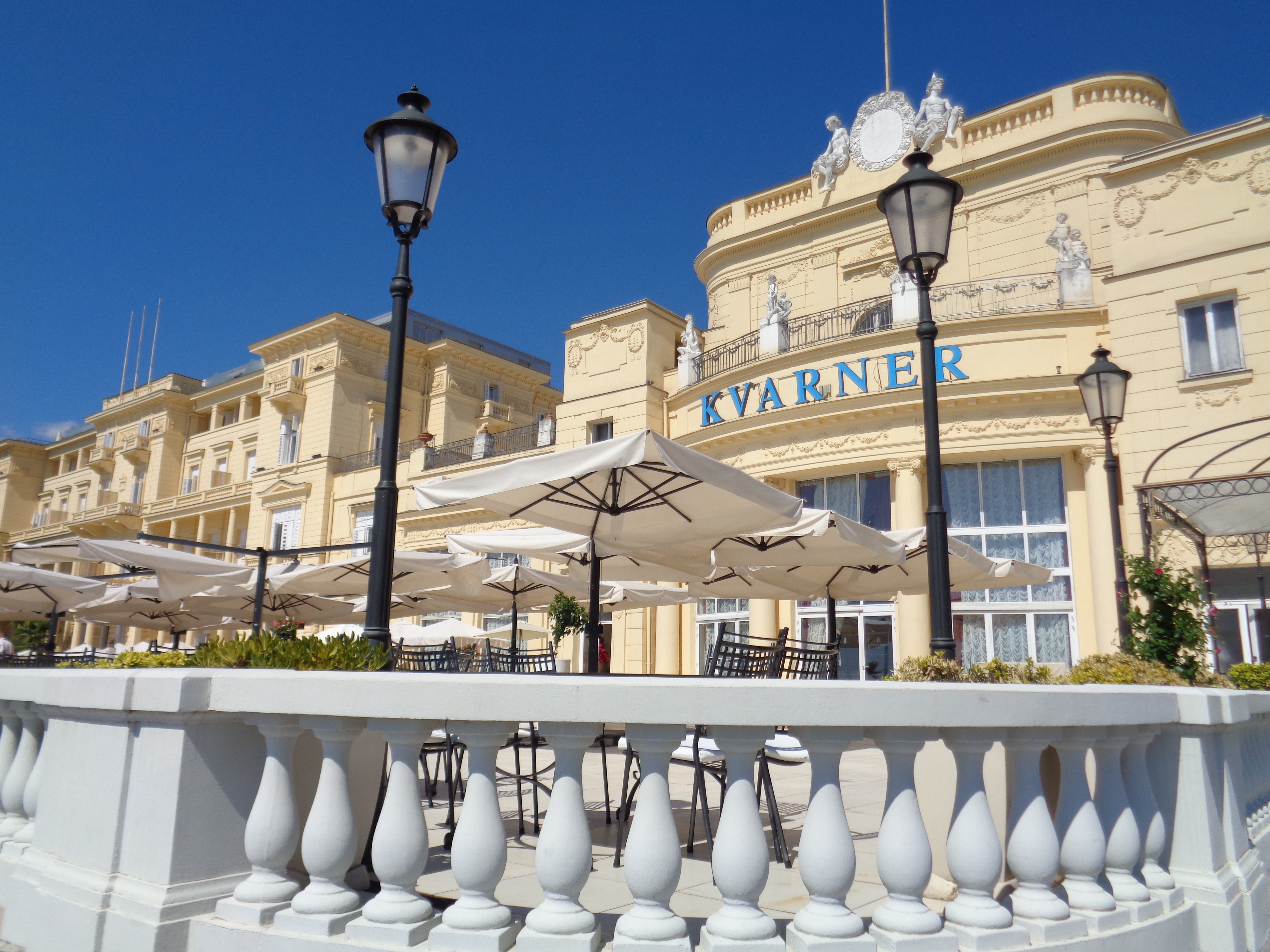 "Kvarner" Hotel in Opatija, Primorje-Gorski kotar County, Croatia